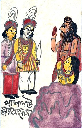 Rama and Lakshmana releasing Ahalya from her husband's curse